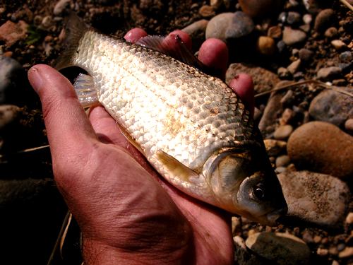 Ginbuna. Carassius auratus langsdori. Ishikari River, Takigawa, Hokkaidō, Japan.